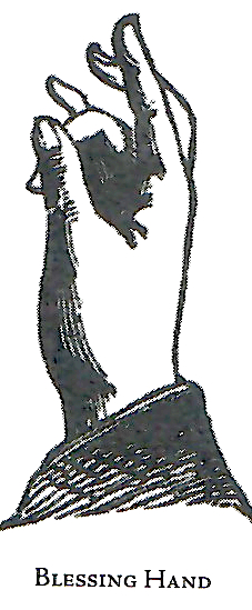 An Eastern Orthodox priest's fingers are positioned thus to form the Greek letters "ΙϹ ΧϹ", the nomina sacra for "ΗϹΟΥϹ ΧΡΙϹΤΟϹ" ("Jesus Christ"), when blessing with his hand. Note that "Ϲ" is frequently how "Σ" was written in medieval Greek manuscripts.